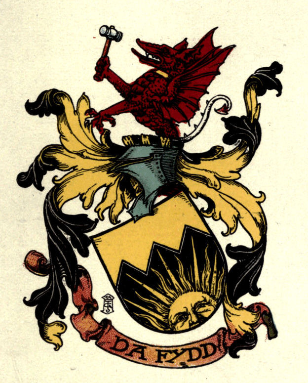 Plate 6. The Arms of Fox-Davies of Coalbrookdale, co. Salop. granted in 1905. "Sable, a demi sun in splendour issuant in base or, a chief dancetee of the last". Crest: "on a wreath of the colours, a demi dragon rampant gules collared or, holding in the dexter claw a hammer proper". Motto: "Da Fydd" (Welsh, meaning "Good Faith", and punning on "Davies").